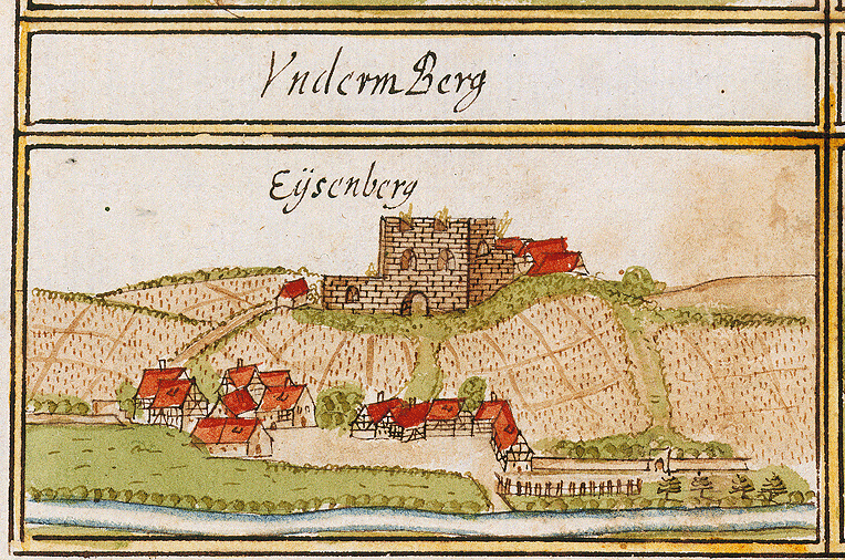 View of Untermberg, Bissingen an der Enz, Bietigheim-Bissingen, from the forest register books created by Andreas Kieser